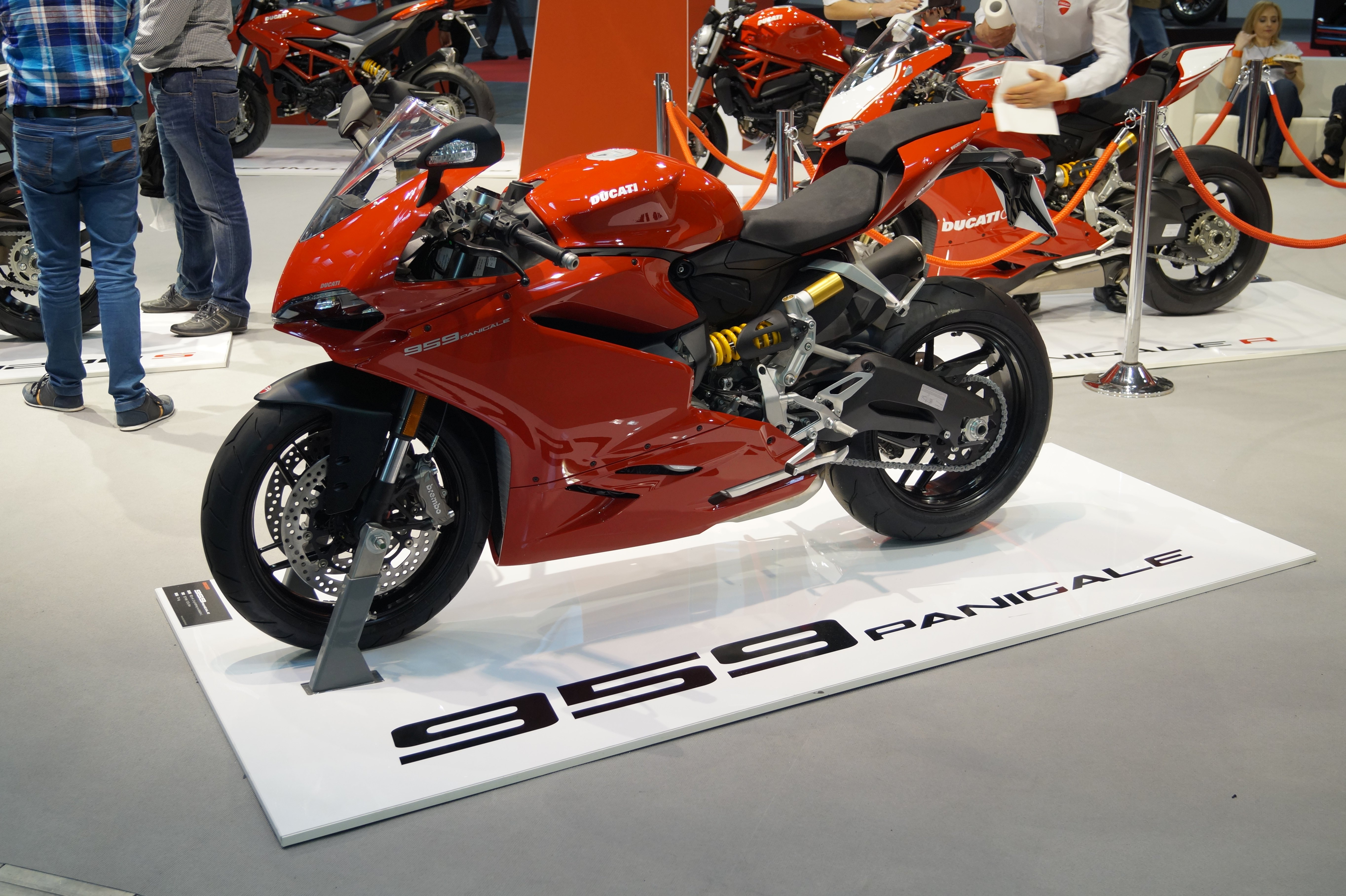 The making of this document was supported by Wikimedia Polska Association, within Wikigrant no. WG 2016-10. English | polski | +/− Ducati 959 Panigale na Motor Show Poznań 2016